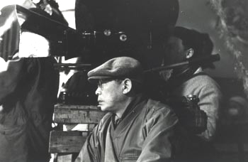 Kenji Mizoguchi (16 May 1898–24 August 1956)